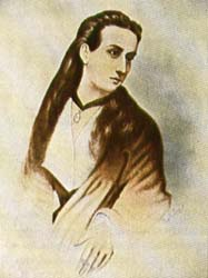 "El Gráfico'" a Pencil and watercolor work of.